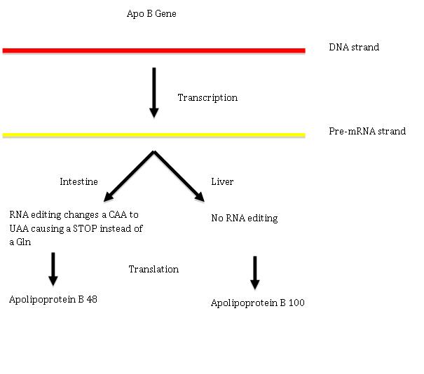 Personal Rendition of the Apob gene in humans and its expression in liver and intestine